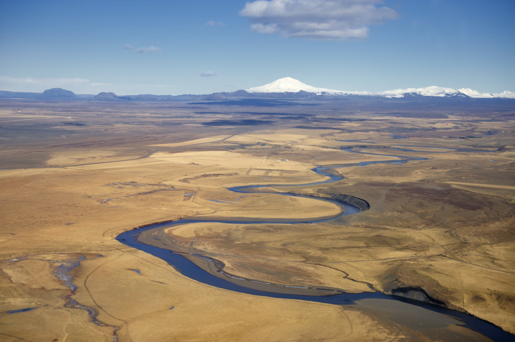 view from a helicopter of Ytri Rangá with Hekla in the background.